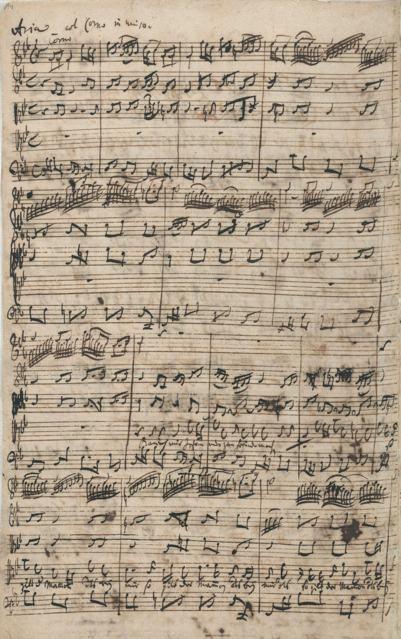 Tenor aria from BWV 105